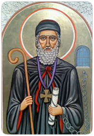 Chaldean Icon of Mar Abba chained with a scroll holding a patriarchal staff.